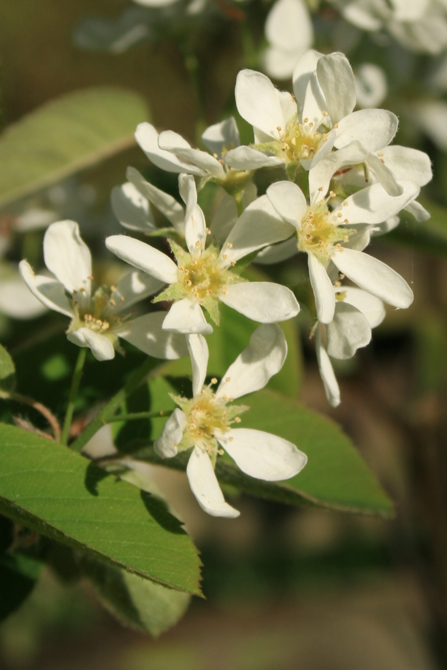 Amelanchier spicata: Flower-head